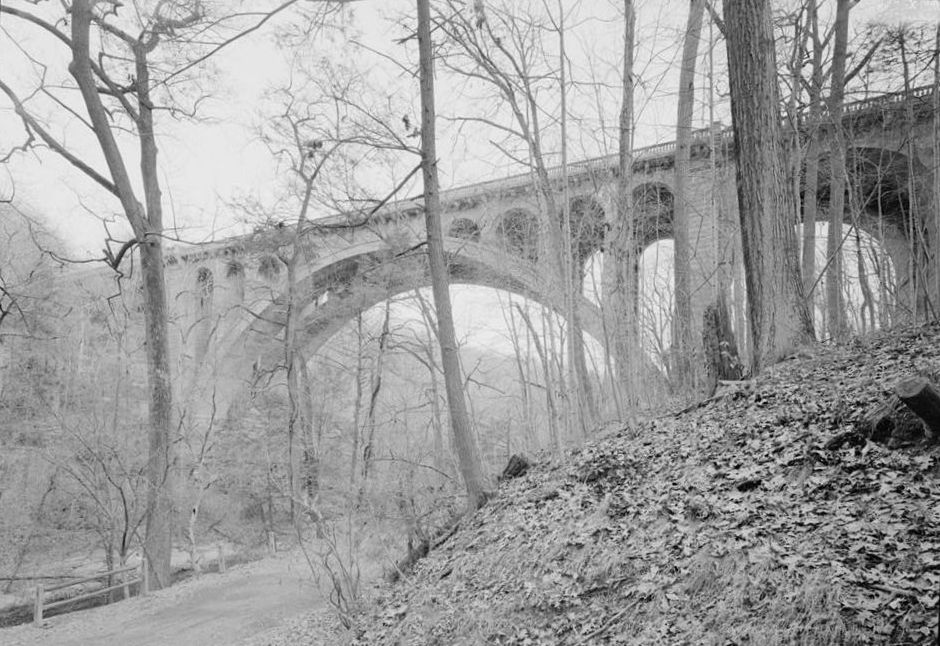 Walnut Lane Bridge, Spanning Wissahickon Creek, Philadelphia, Pennsylvania, West Elevation, Looking East from South Bank of Wissahickon Creek.